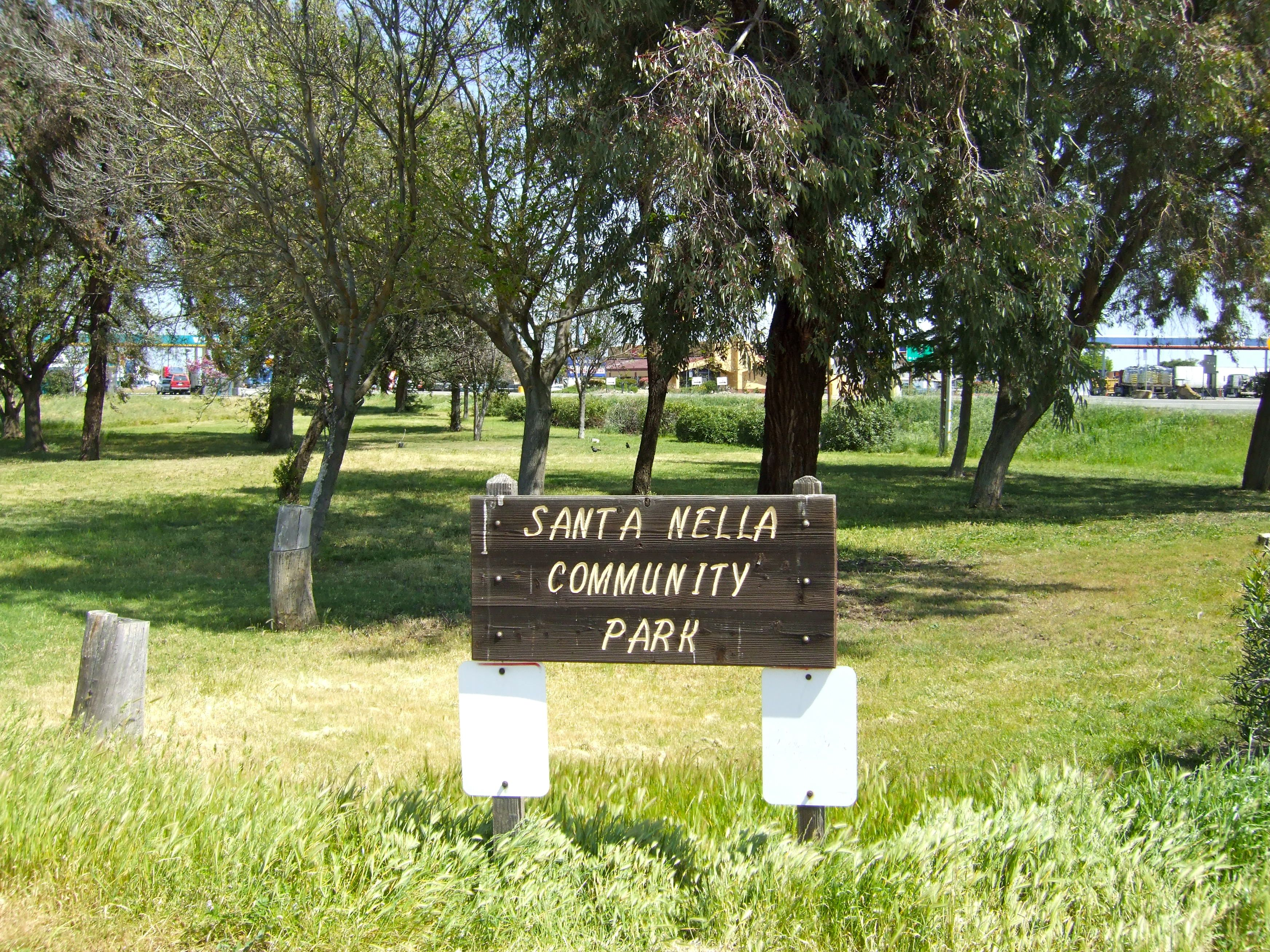 County park in Santa Nella, 2011 Other information Photo by George Garrigues.